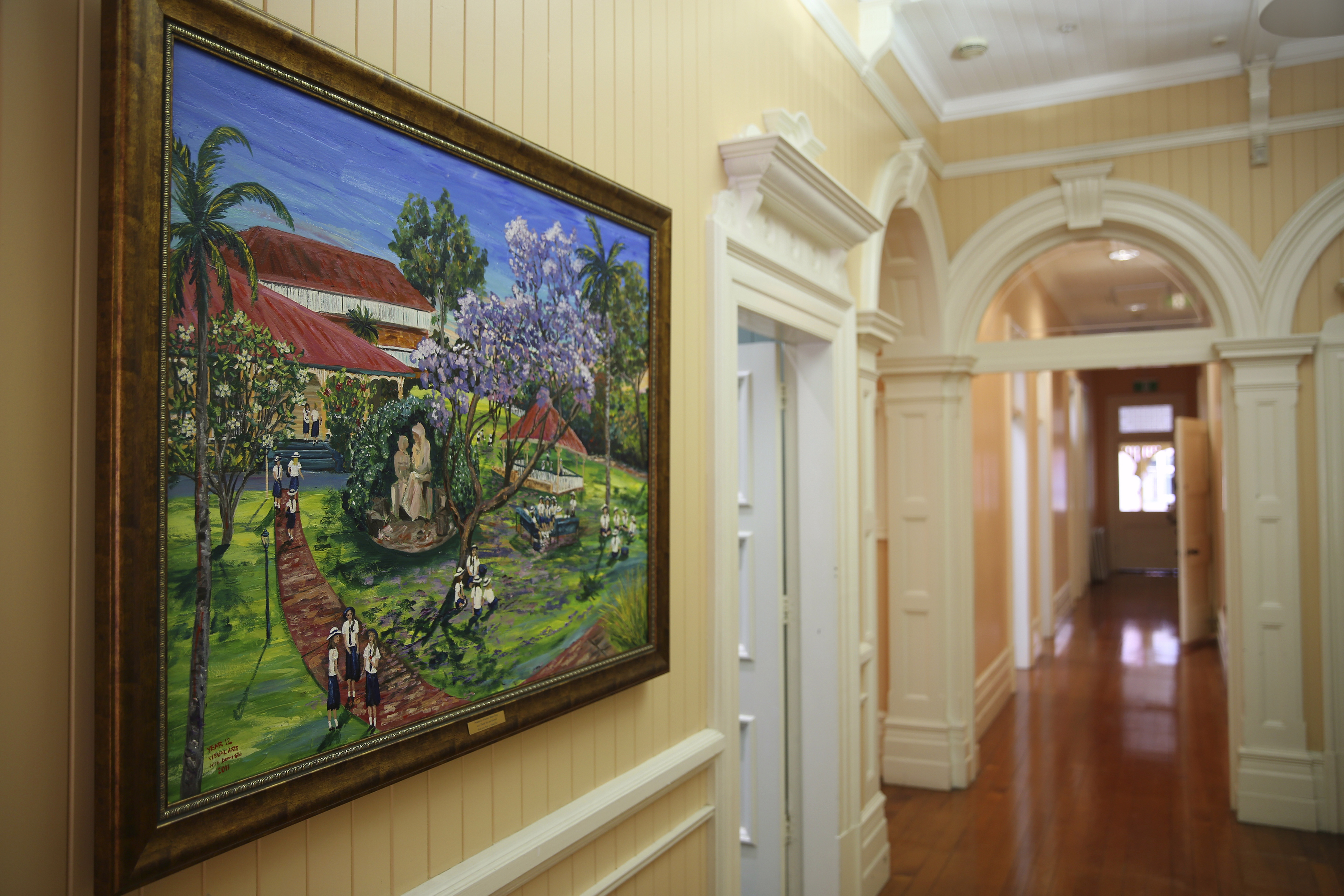 Inside Grantuly, now part of Mt St Michael's College. The building houses the administration of the college.